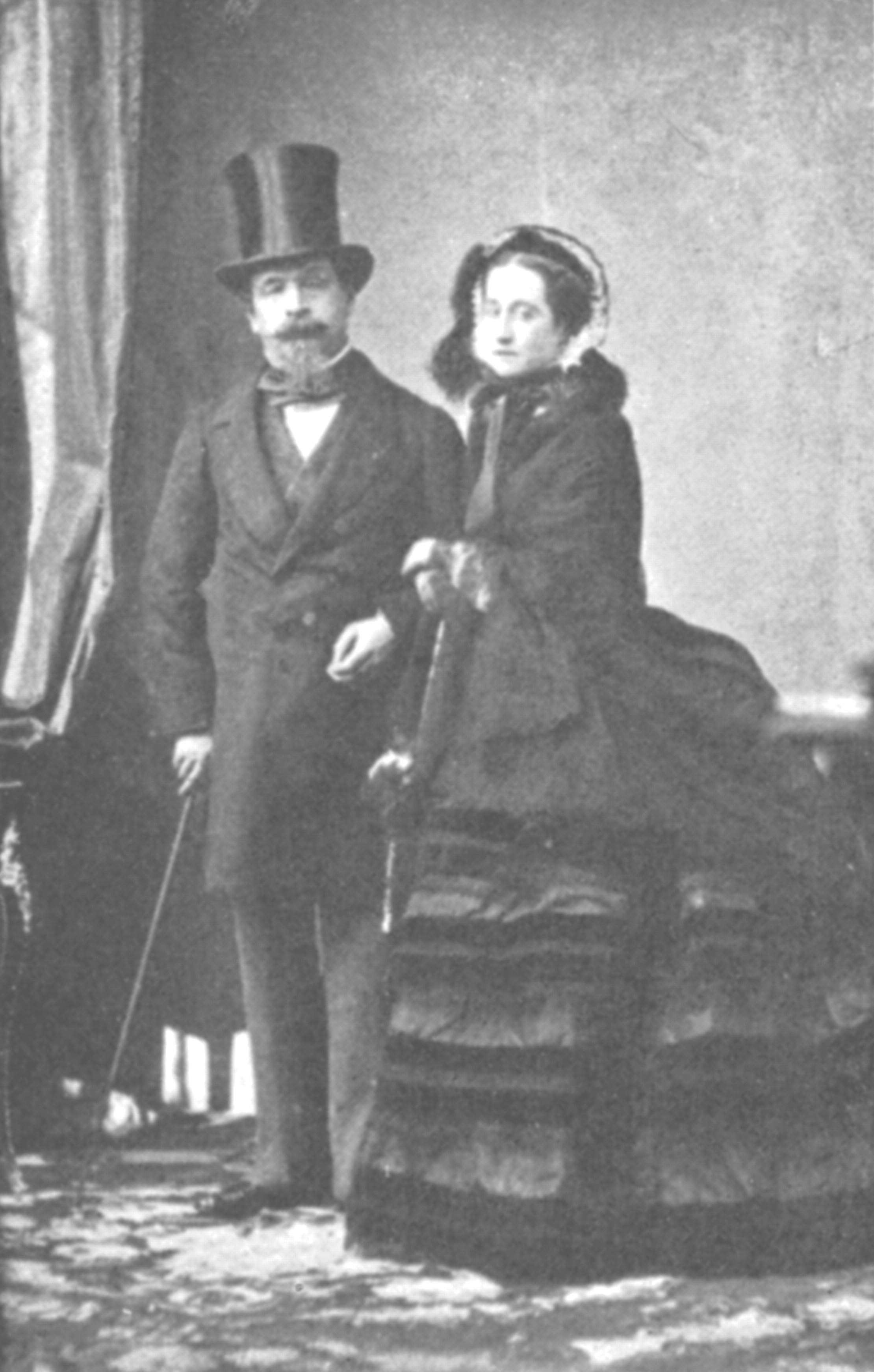 French emperor Napoléon III and his wife Eugénie.